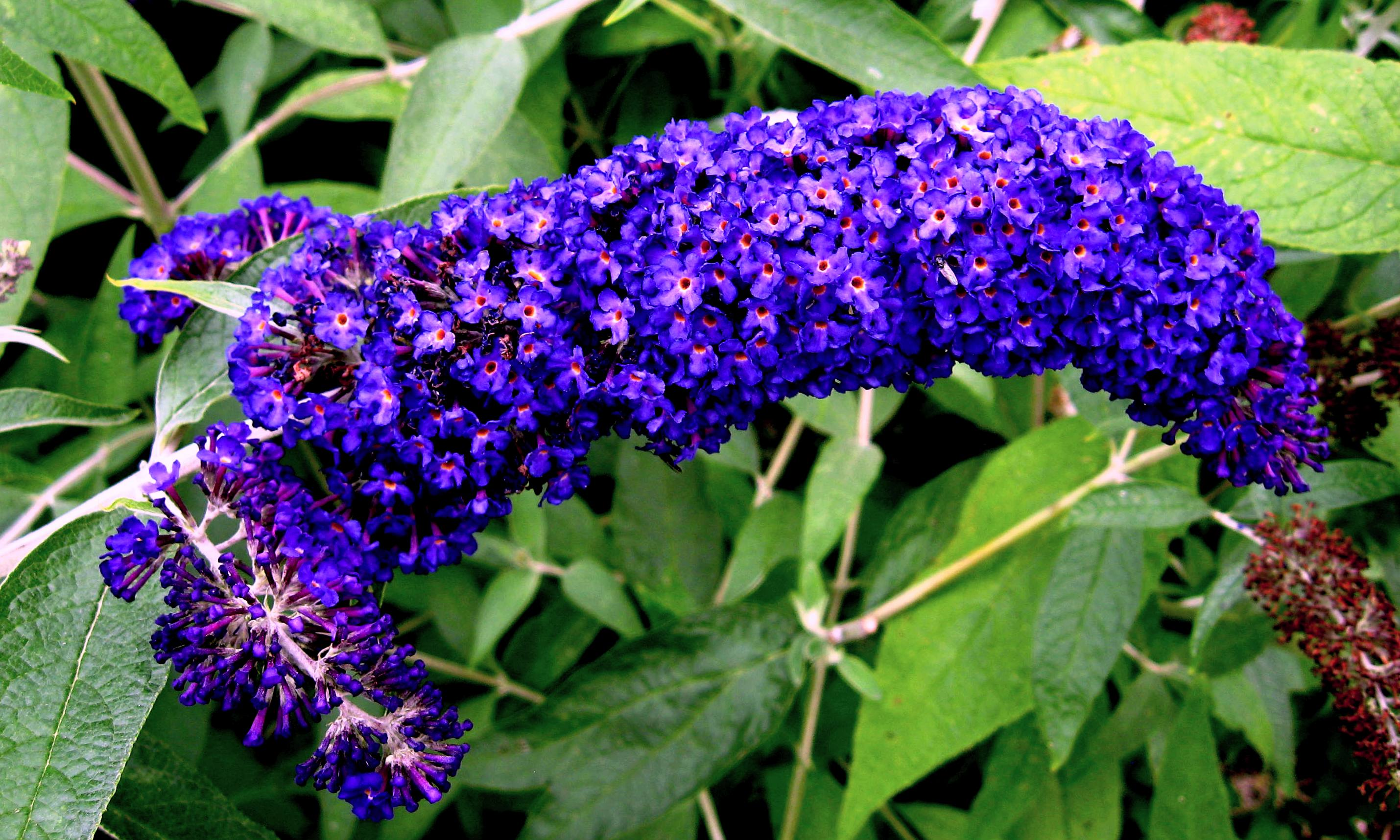 Photo taken at Longstock Park, UK, August 2012.